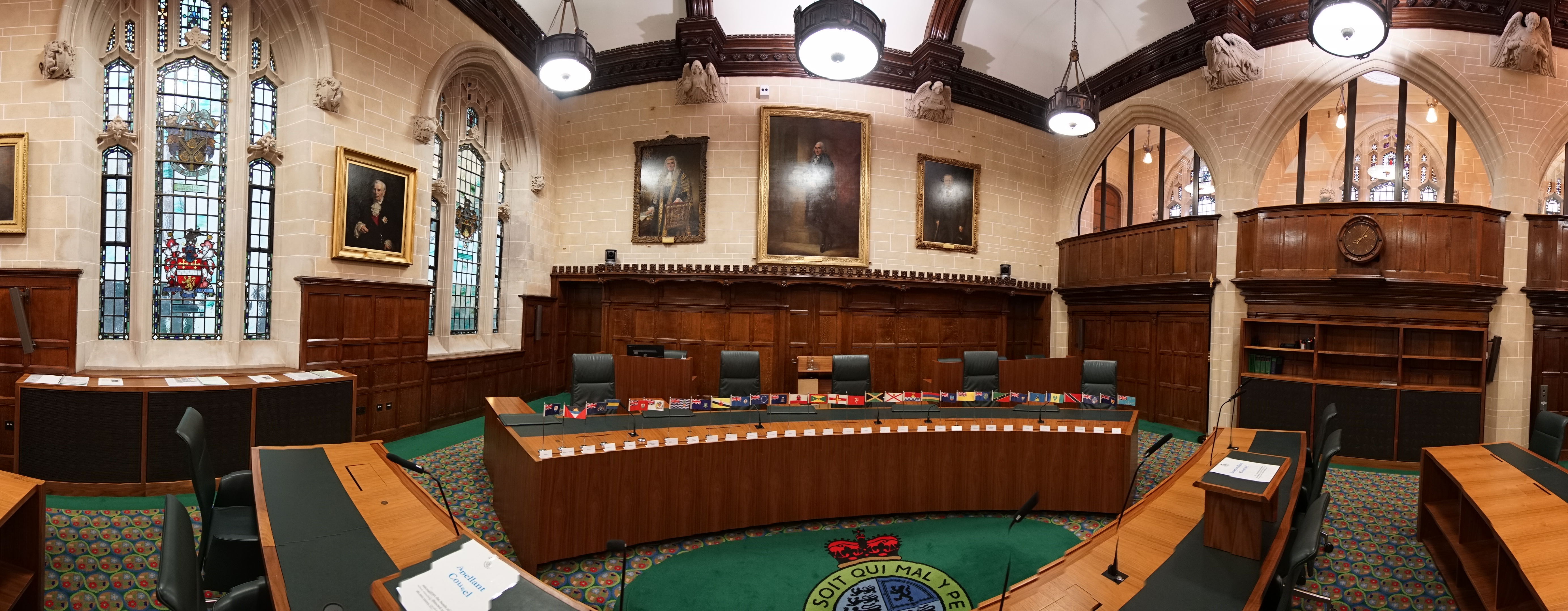 Judicial Committee of the Privy Council hosted in Middlesex Guildhall in London.